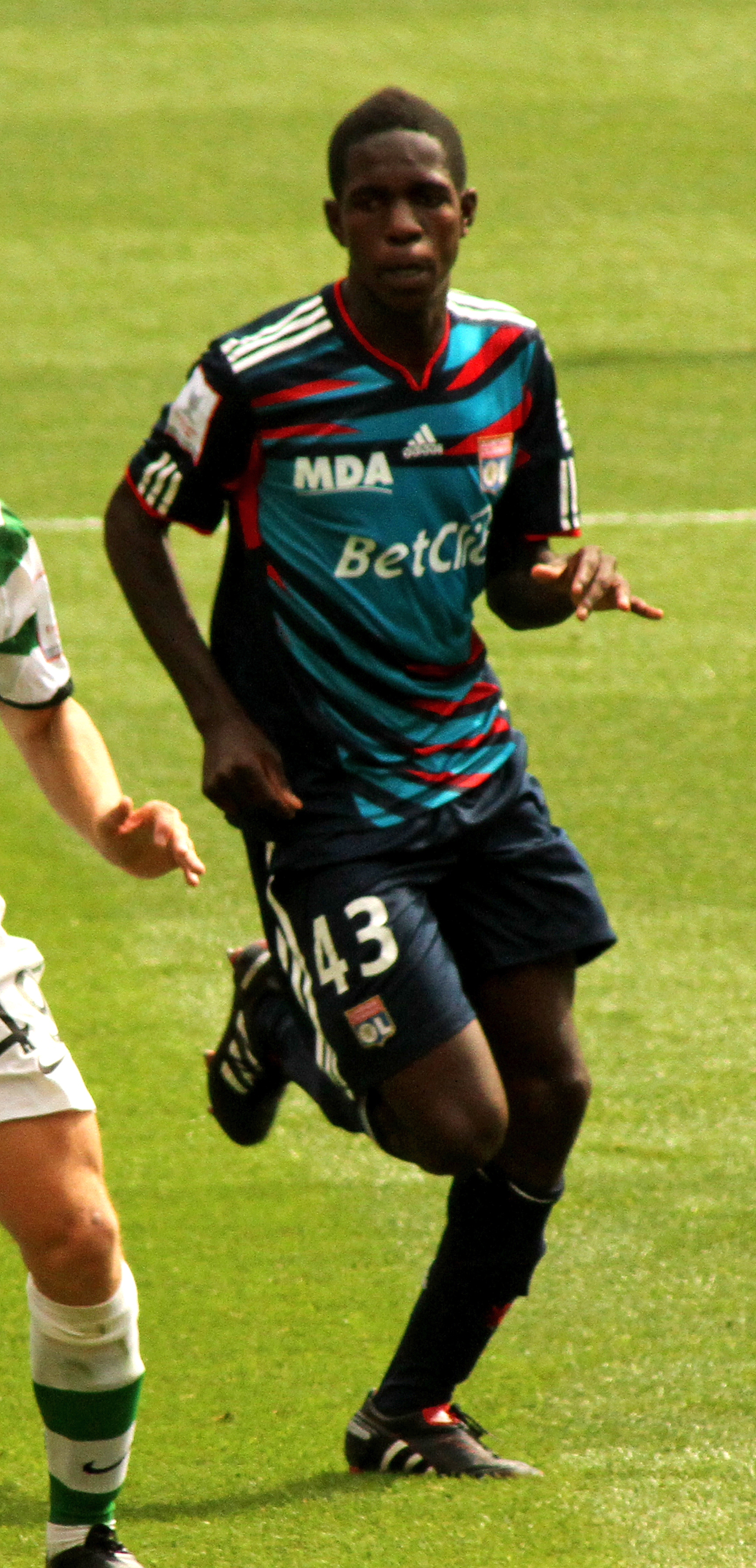 French football player Samuel Umtiti whule playing for Olympique lyonnais